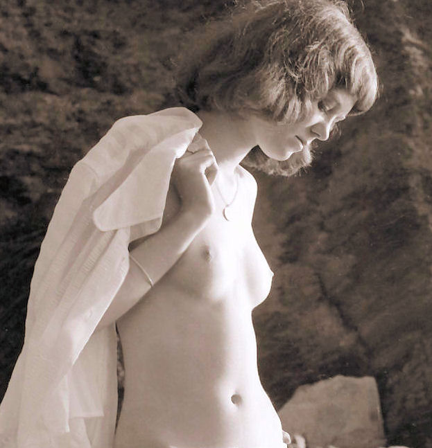 Sepia tone study of Erika.